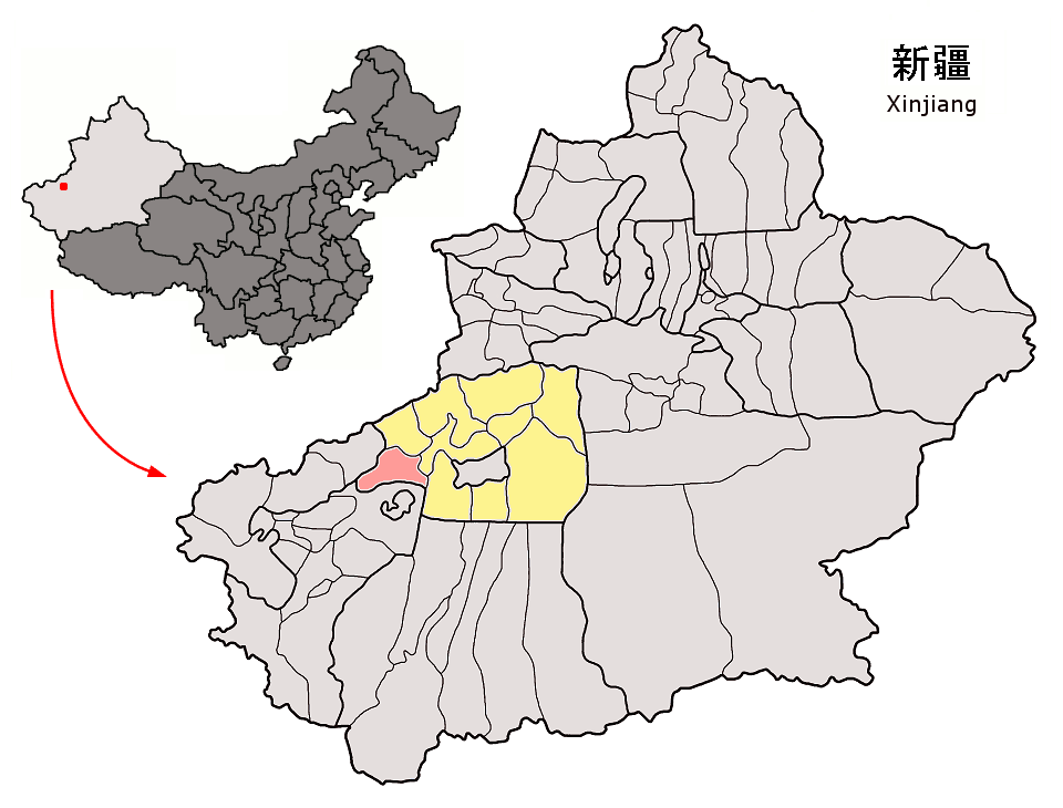 Location of Kalpin County (pink) and Aksu Prefecture (yellow) within Xinjiang autonomous region of China Map drawn in september 2007 using various sources, mainly : Xinjiang Uygur autonomous region administrative regions GIS data: 1:1M, County level, 1990 Xinjiang Counties map from